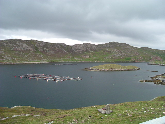 Salmon Farms at Gunnister Voe Sea farming at Gunnister voe, Northmavine, viewed from the South across to the hill of birkavid